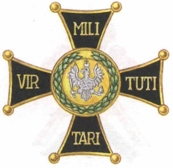 Badge of Grenadersky Guard Regiment